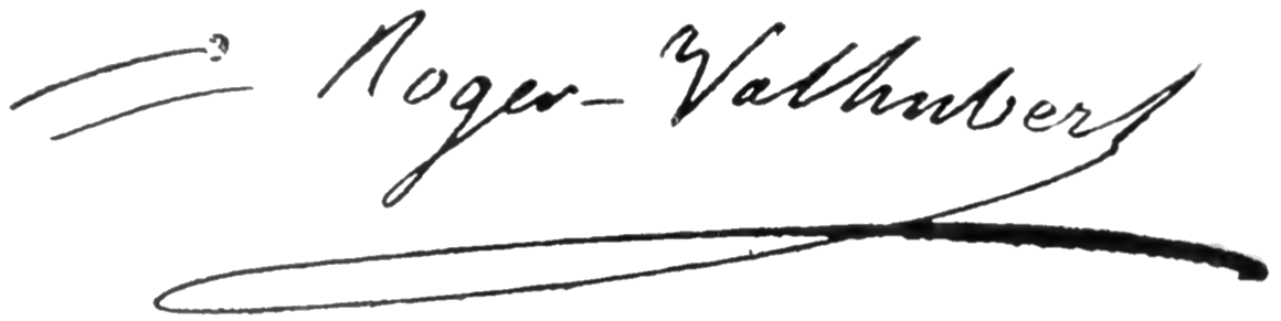 Signature of french general Jean-Marie Valhubert (1764-1805)